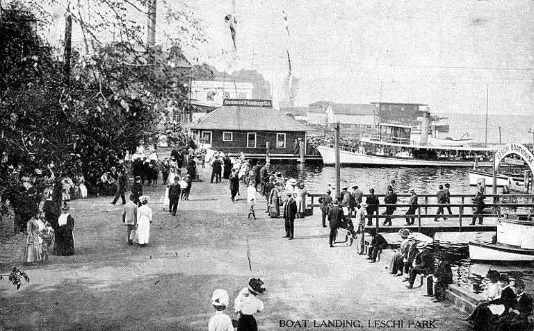 Leschi Park and boat docks on Lake Washington. Archival source says date is unknown, but based on clothing styles and known dates of vessels running on lake matching those shown here, and style of postcard, this appears to be ca 1910. However, on another version of the same photo (linked below), the University of Washington Libraries say 1901-1903.